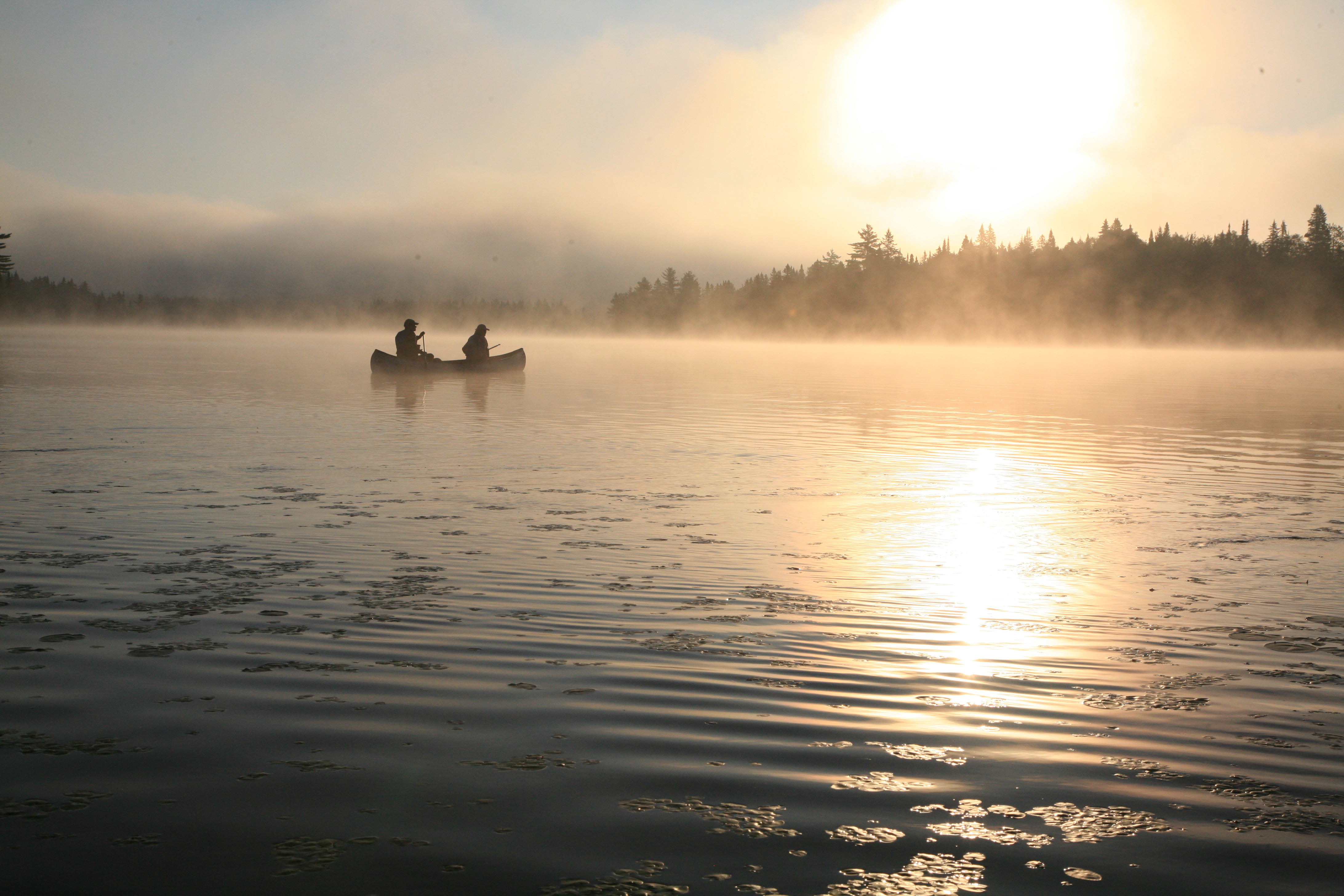 Sunrise on "Lac du Fou" in the La Mauricie National Park, July 28, 2011.